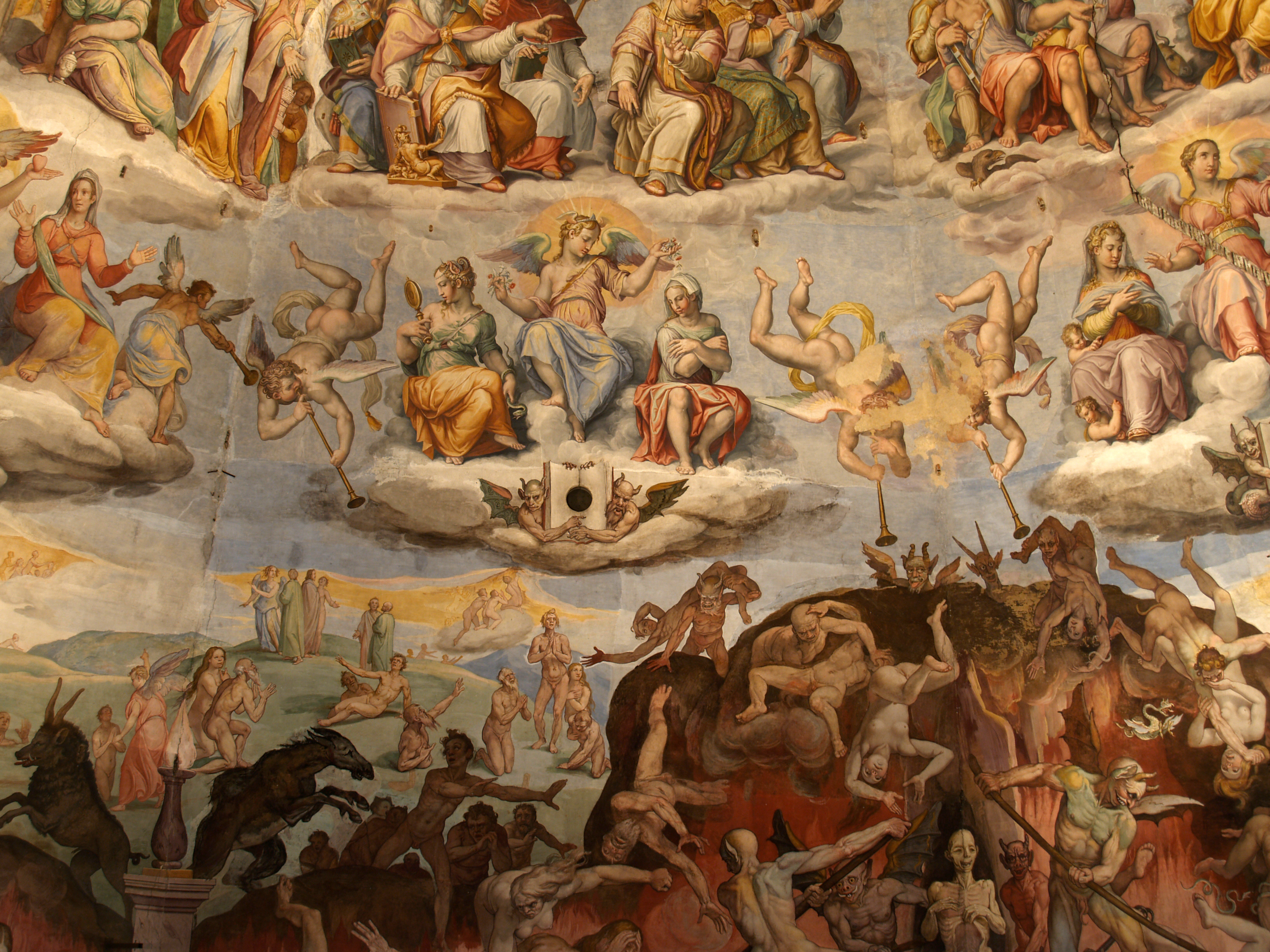 Detail of the fresco in the cupola of Santa Maria del Fiore, Florence, Italy